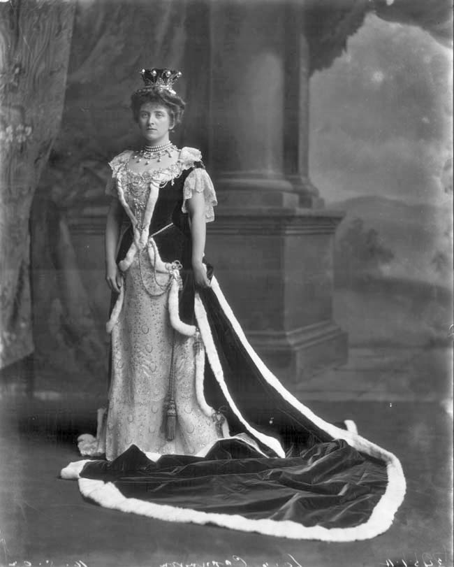 Almina Herbert, Countess of Carnarvon (1876-1969), later Mrs Ian Onslow Dennistoun, in Occasion of the Coronation of King Edward VII, 9 August 1902.